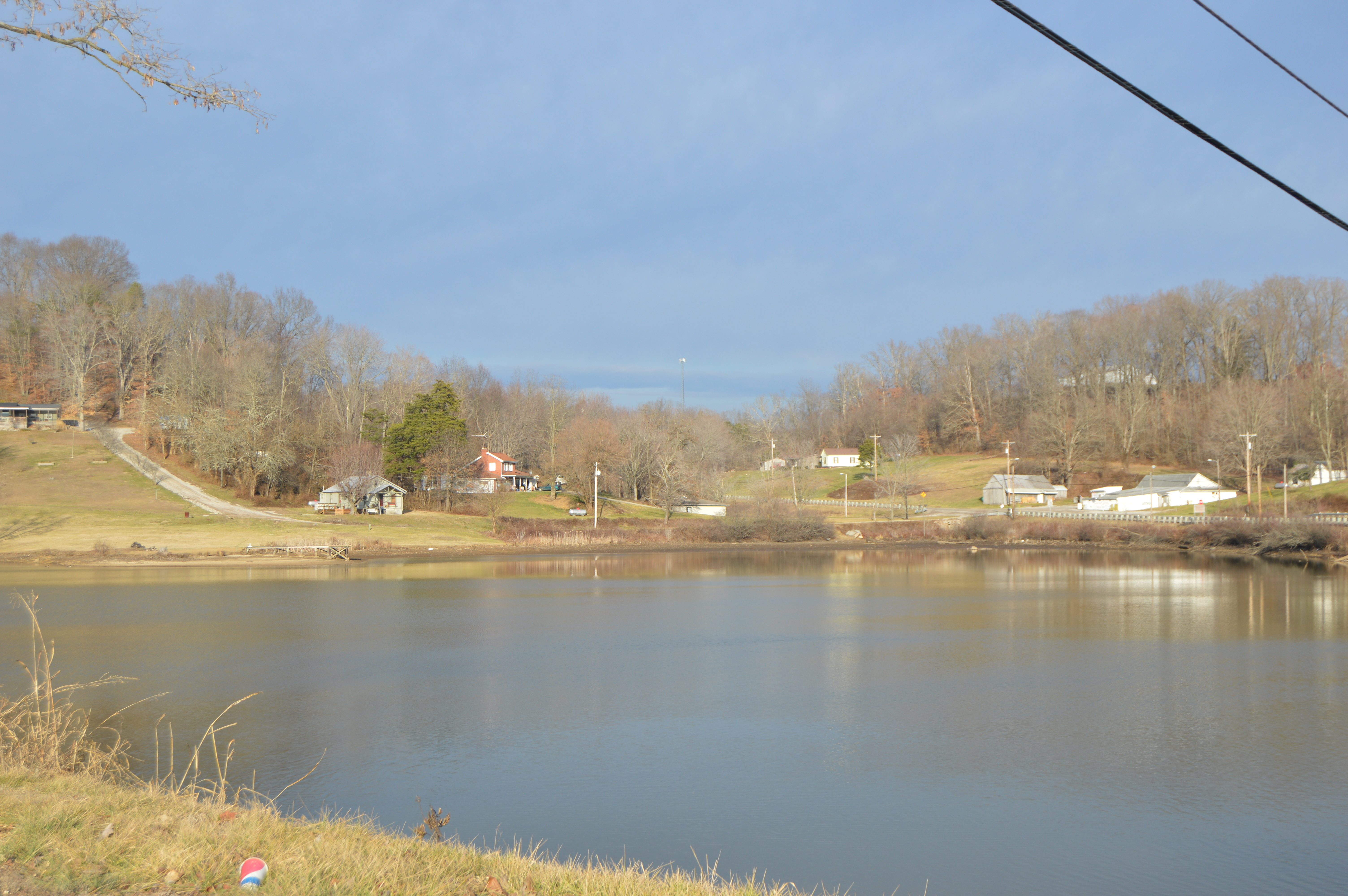 Looking eastward over Jackson Lake from just north of the western end of the State Route 279 causeway in Jefferson Township, Jackson County, Ohio, United States.